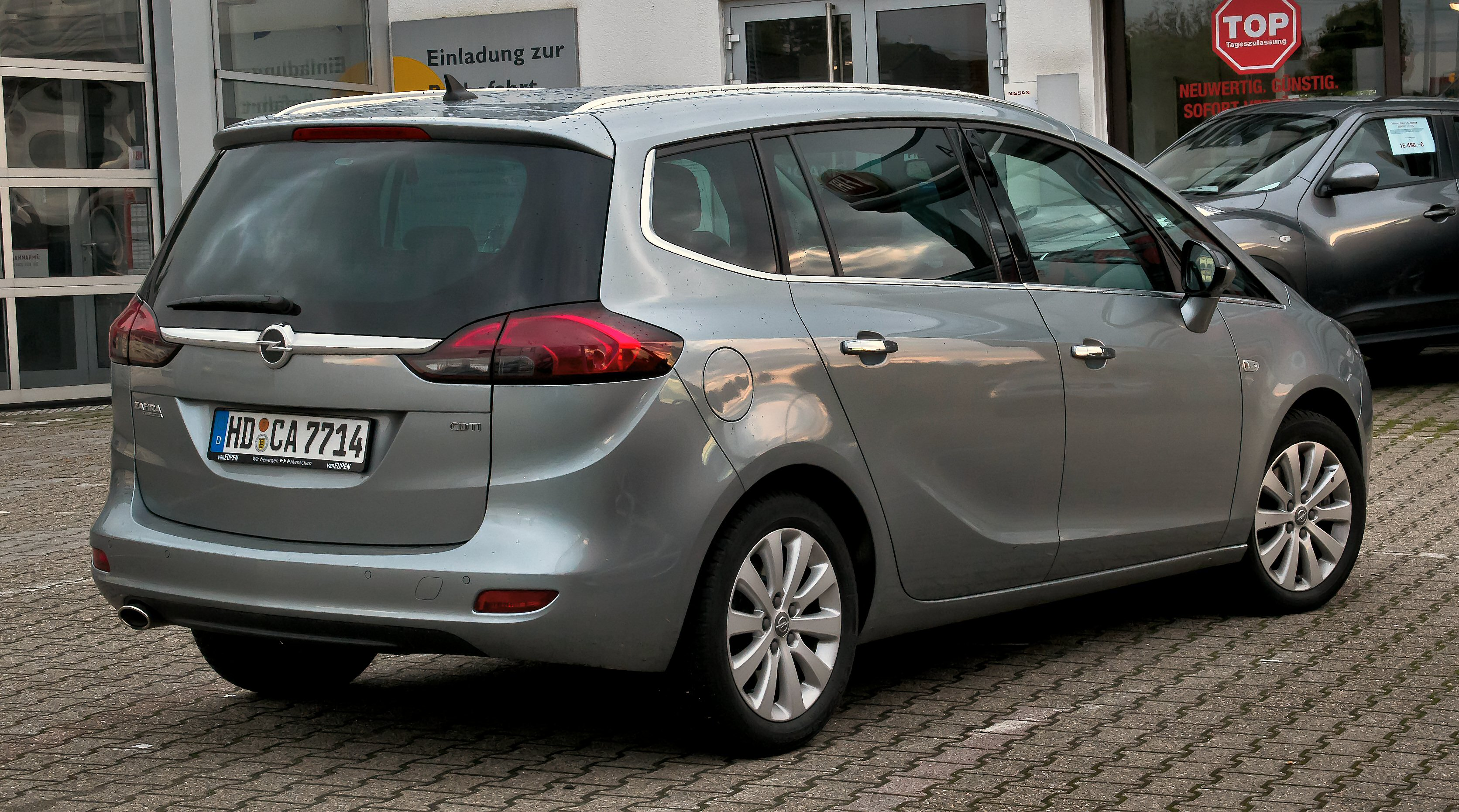 Opel Zafira Tourer 2.0 CDTI Innovation (C)